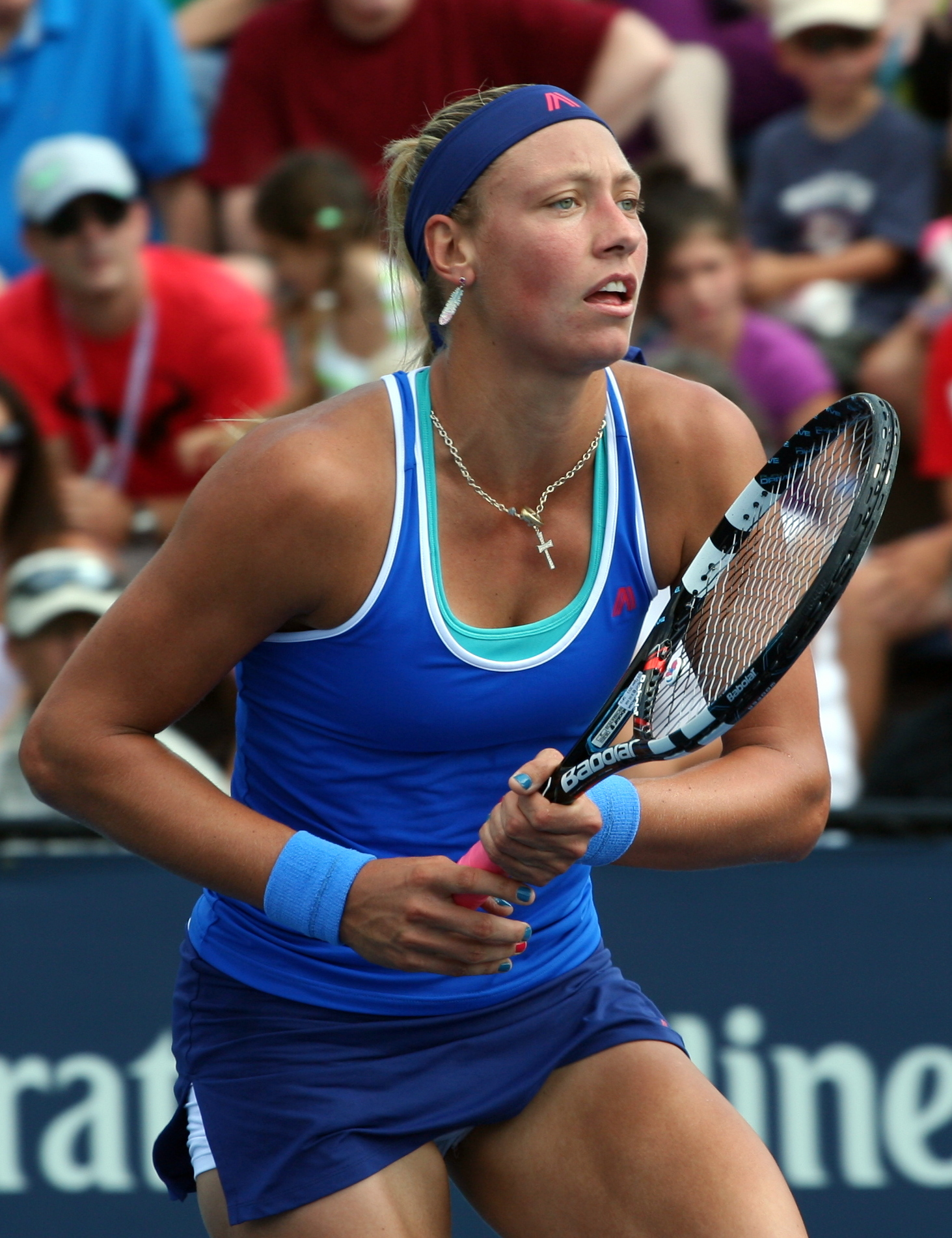 Tuesday, August 27